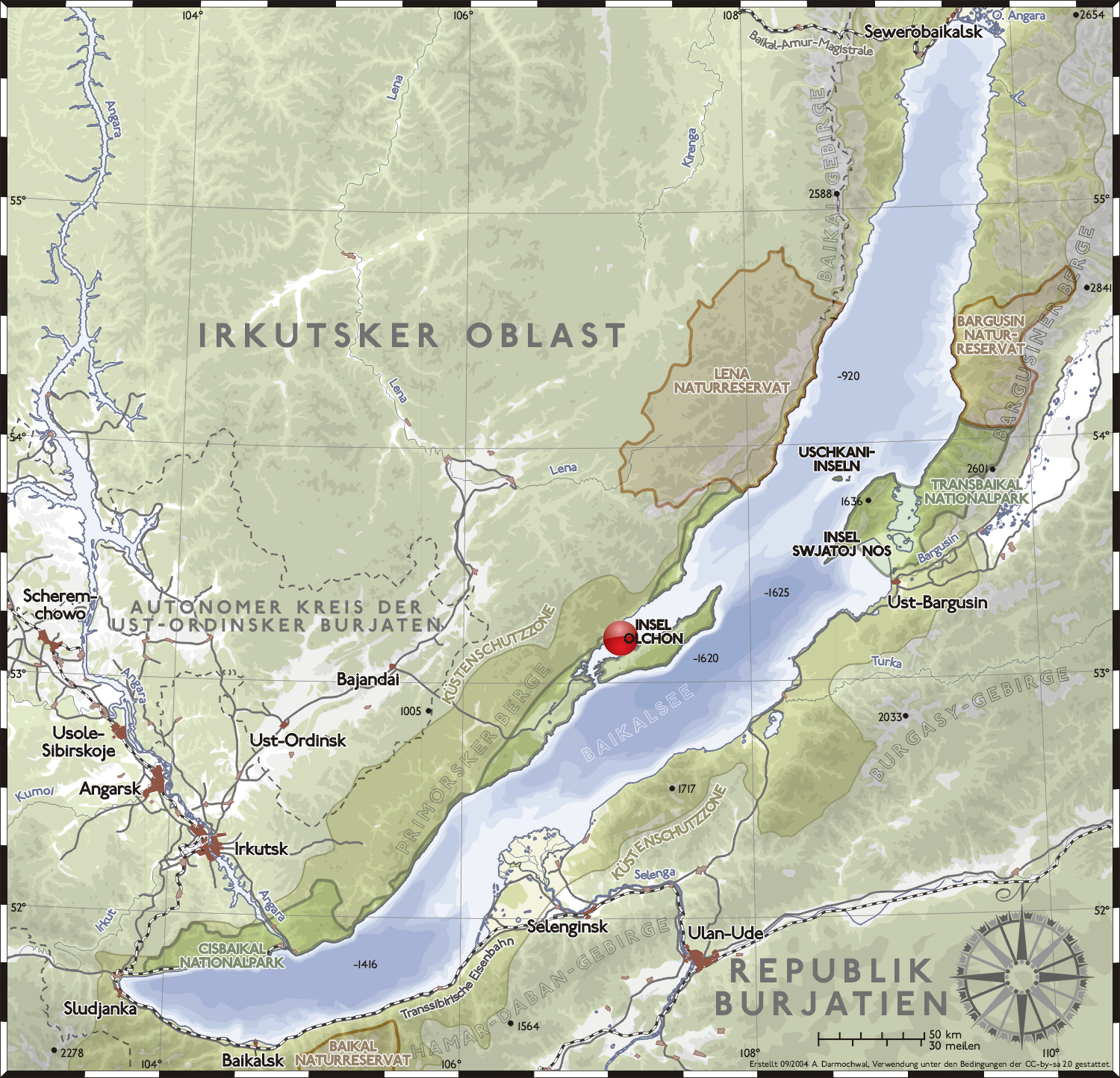 Map of Baikal Lake edited to show Ogoy Island and Maloe More Strait